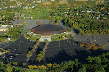 Outside of the Dee Events Center